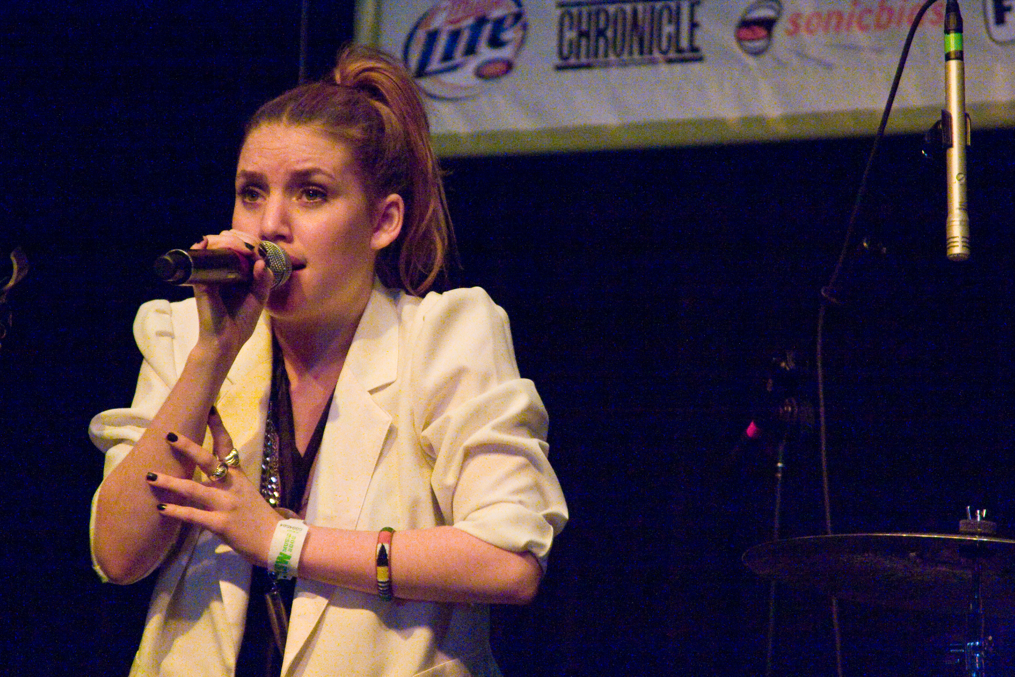 Lykke Li at SXSW08 Day Stage.